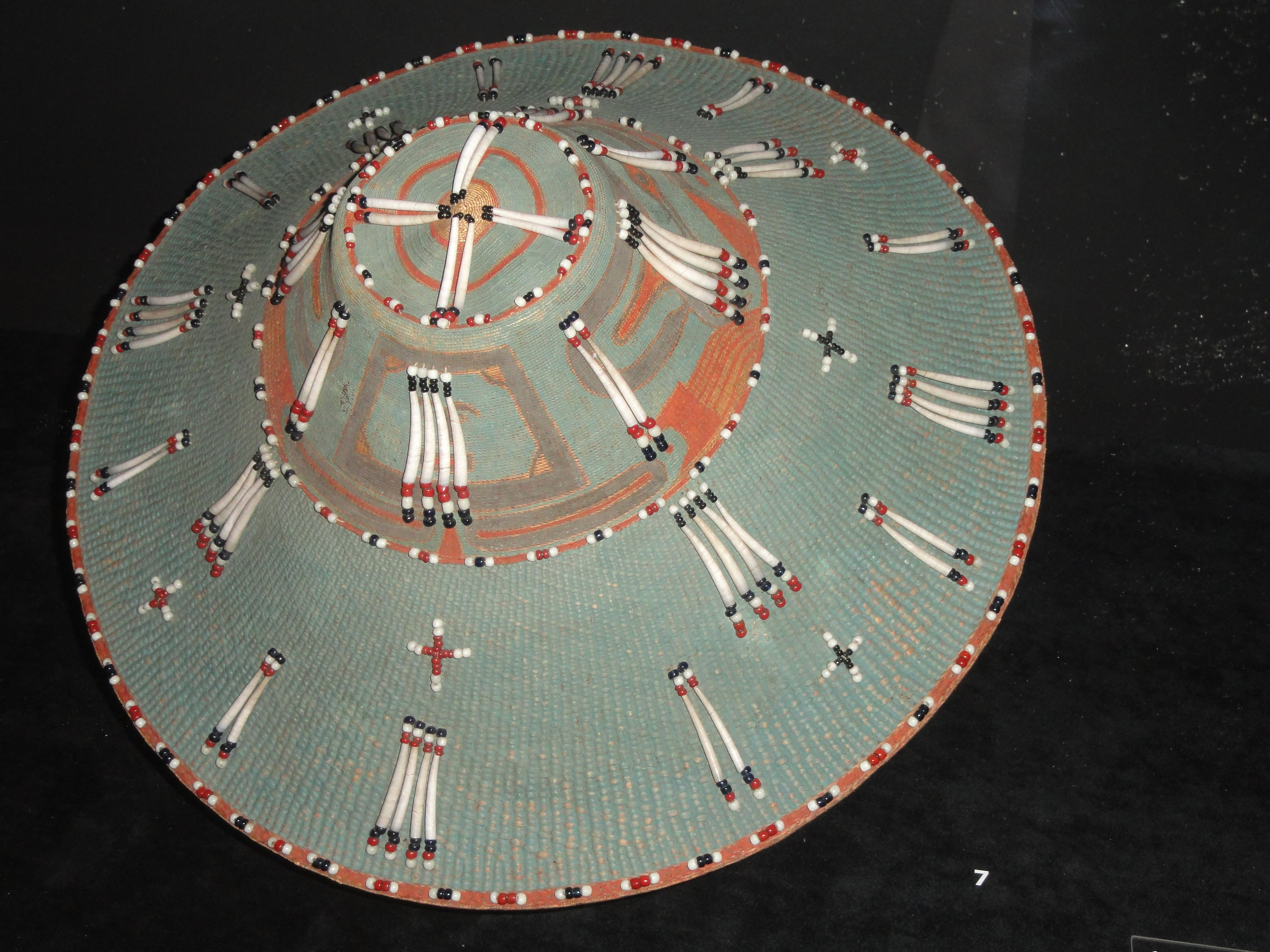 Exhibit in the Arvid Adolf Etholén collection, Museum of Cultures, Helsinki, Finland.